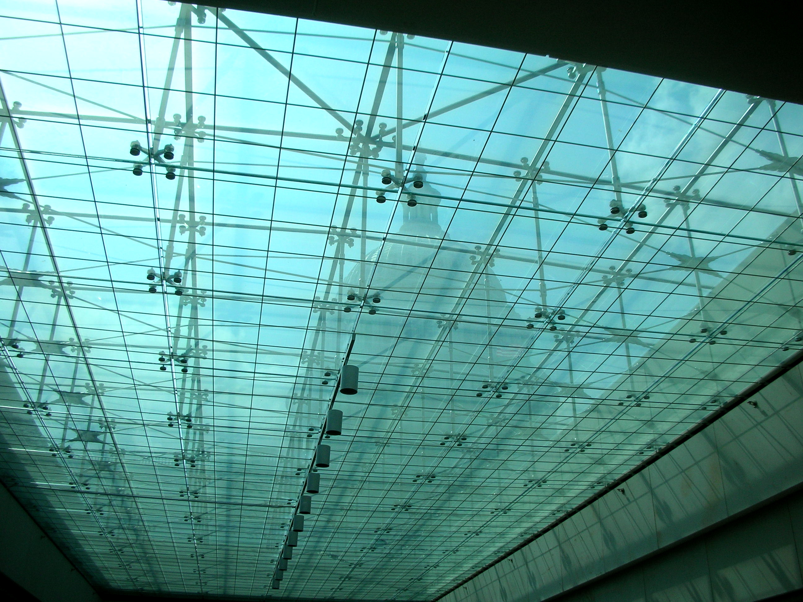 Skylight in the United States Capitol Visitors Center looking up toward the dome of the United States Capitol. The skylight is dusty because of ongoing construction work.